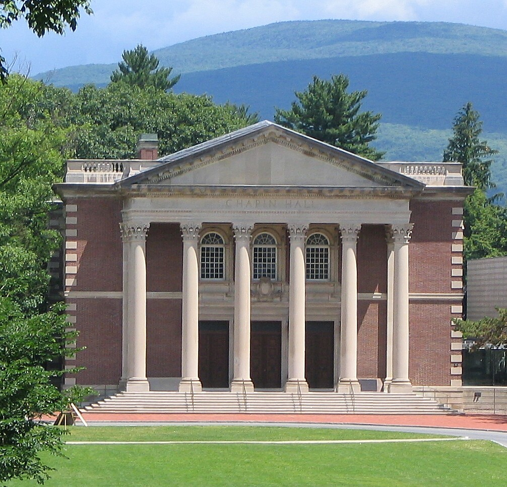 Chapin Hall, Williams College - Williamstown, MA